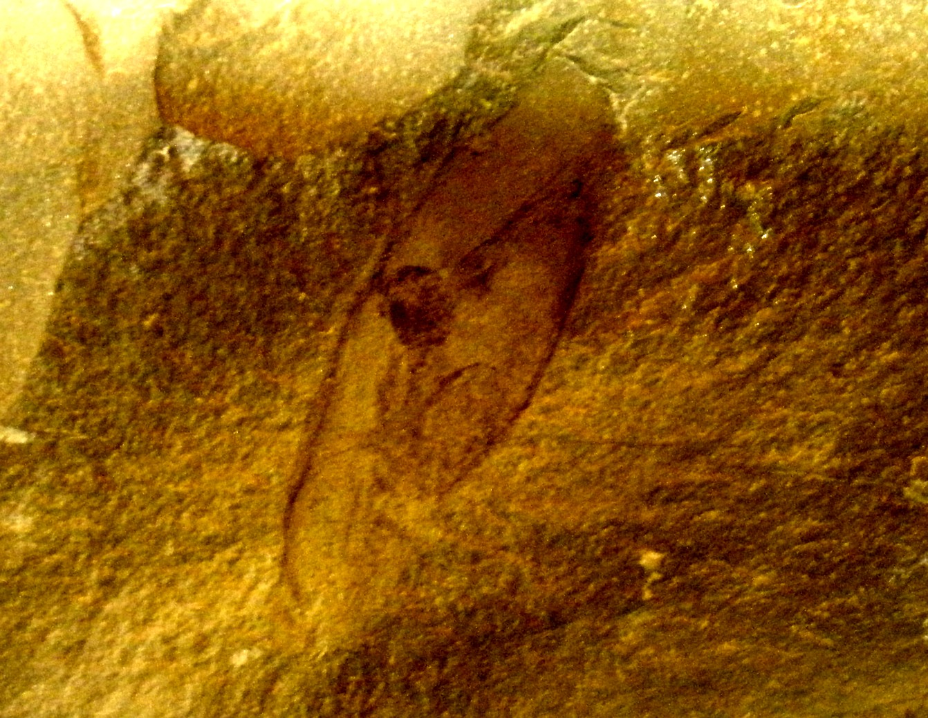 Fossil of Typhloesus wellsi, an extinct animal Took the photo at Museo di Storia Naturale, Milano